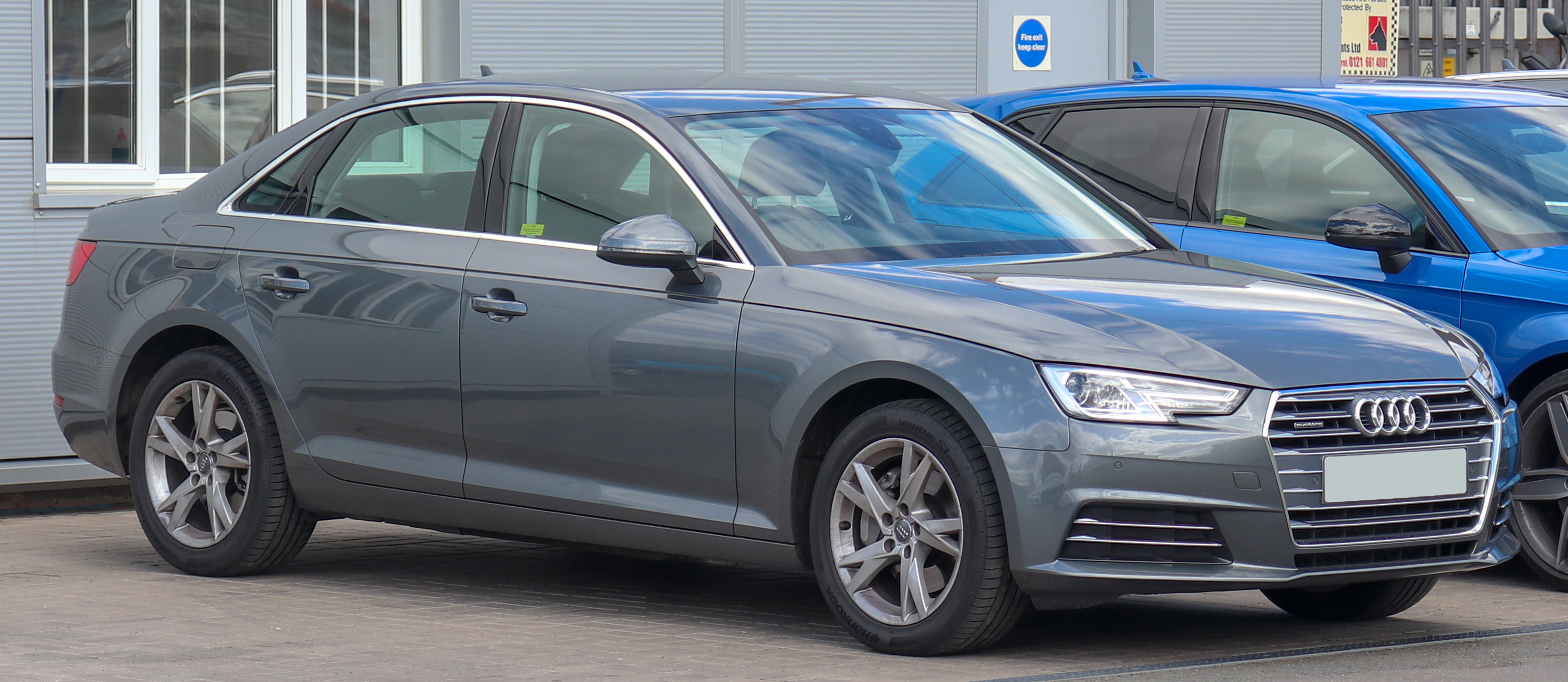 2018 Audi A4 Sport TDi Quattro S-A 2.0 Taken in Stratford-upon-Avon